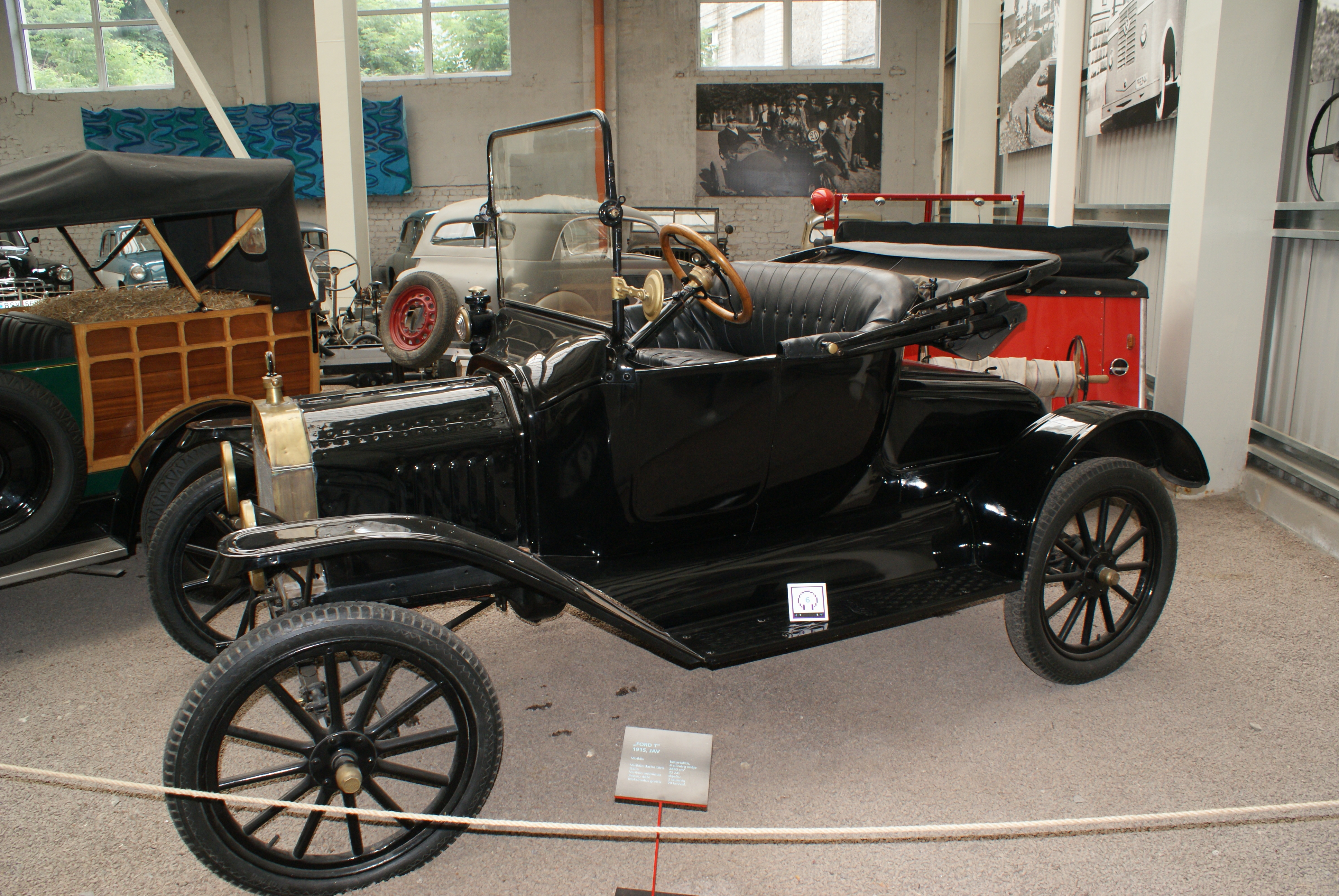 Ford Model T 1915, JAV in Vilnius Energy and Technology Museum